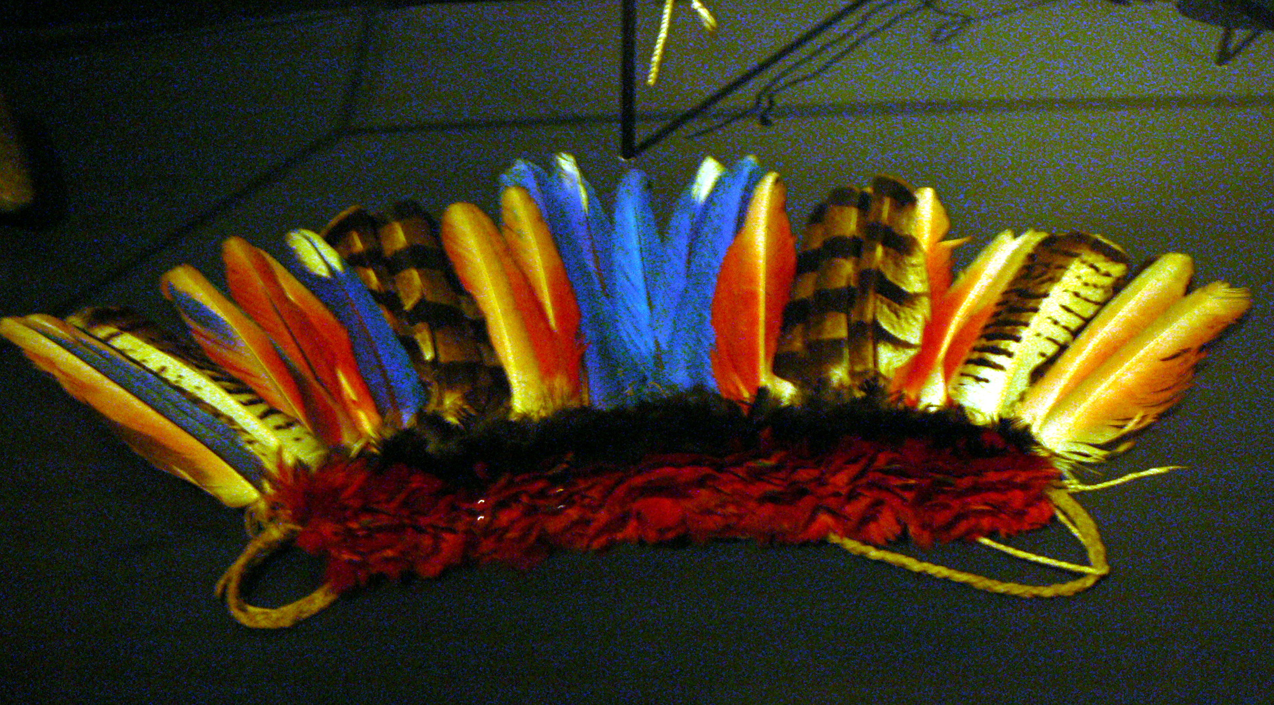 Museum of Ethnology (Vienna). Exhibition "Beyond Brasil": Feathered headdress ( 1830 ) of the Apiaká, Rio Arinas, Brasil.